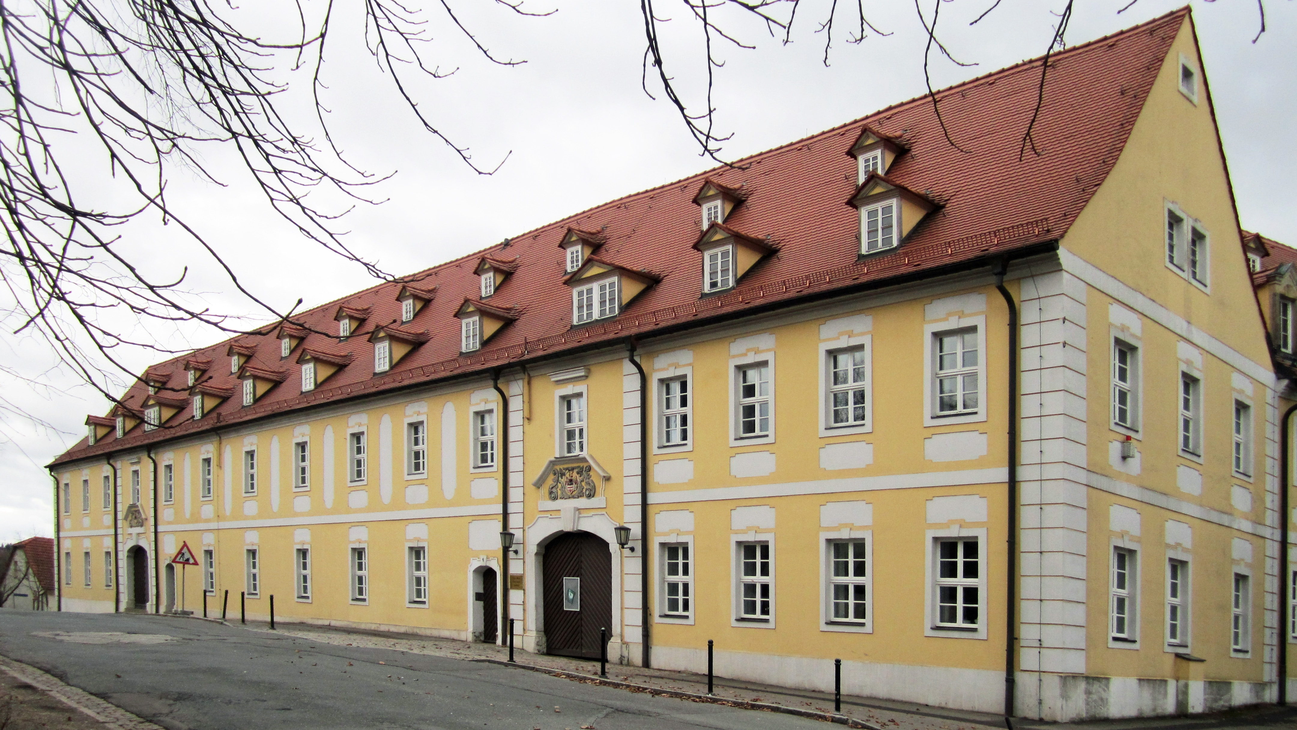 Planitz castle in Niederplanitz, city of Zwickau, Saxony, Germany.